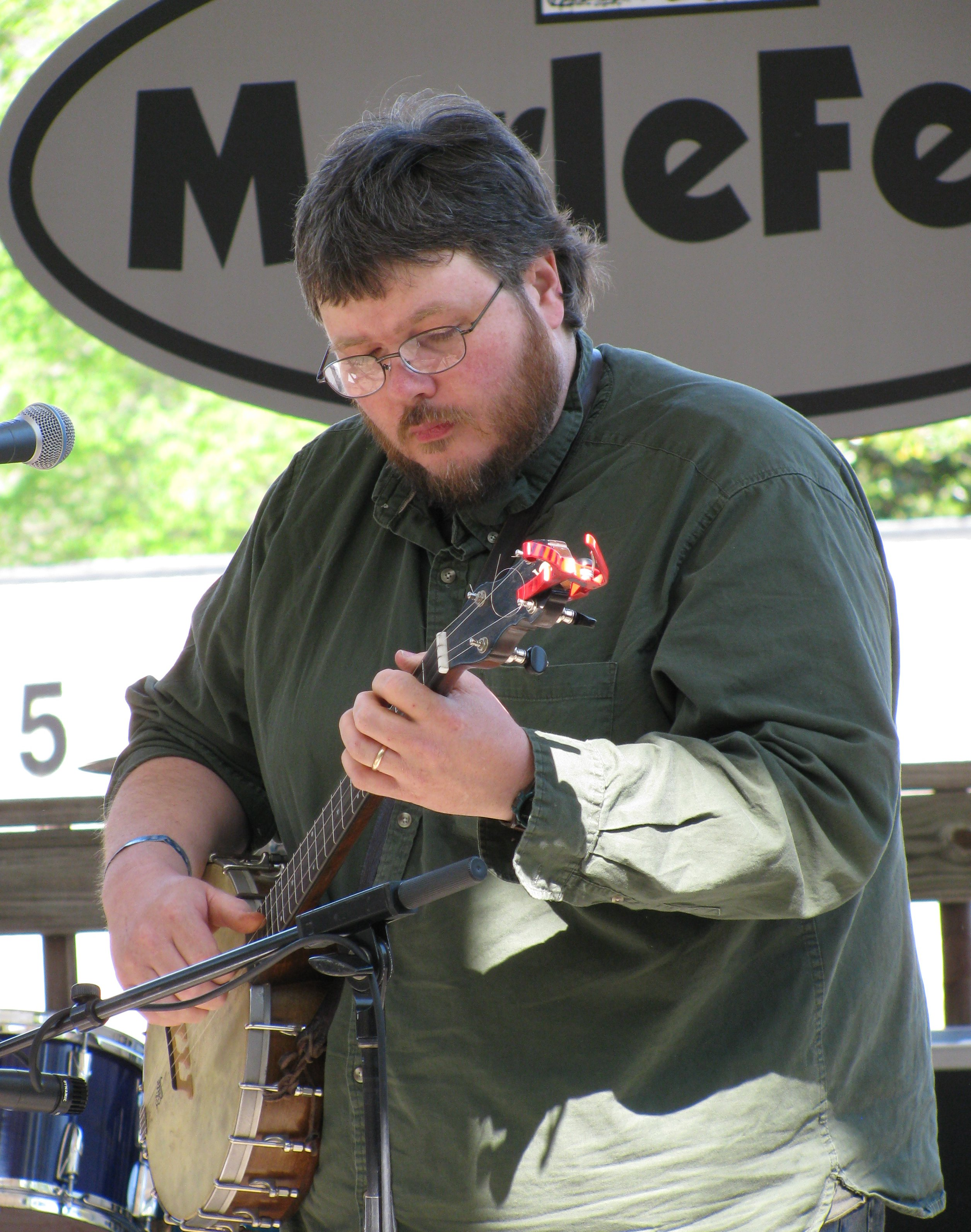 Riley Baugus on the Austin Stage, April 2009